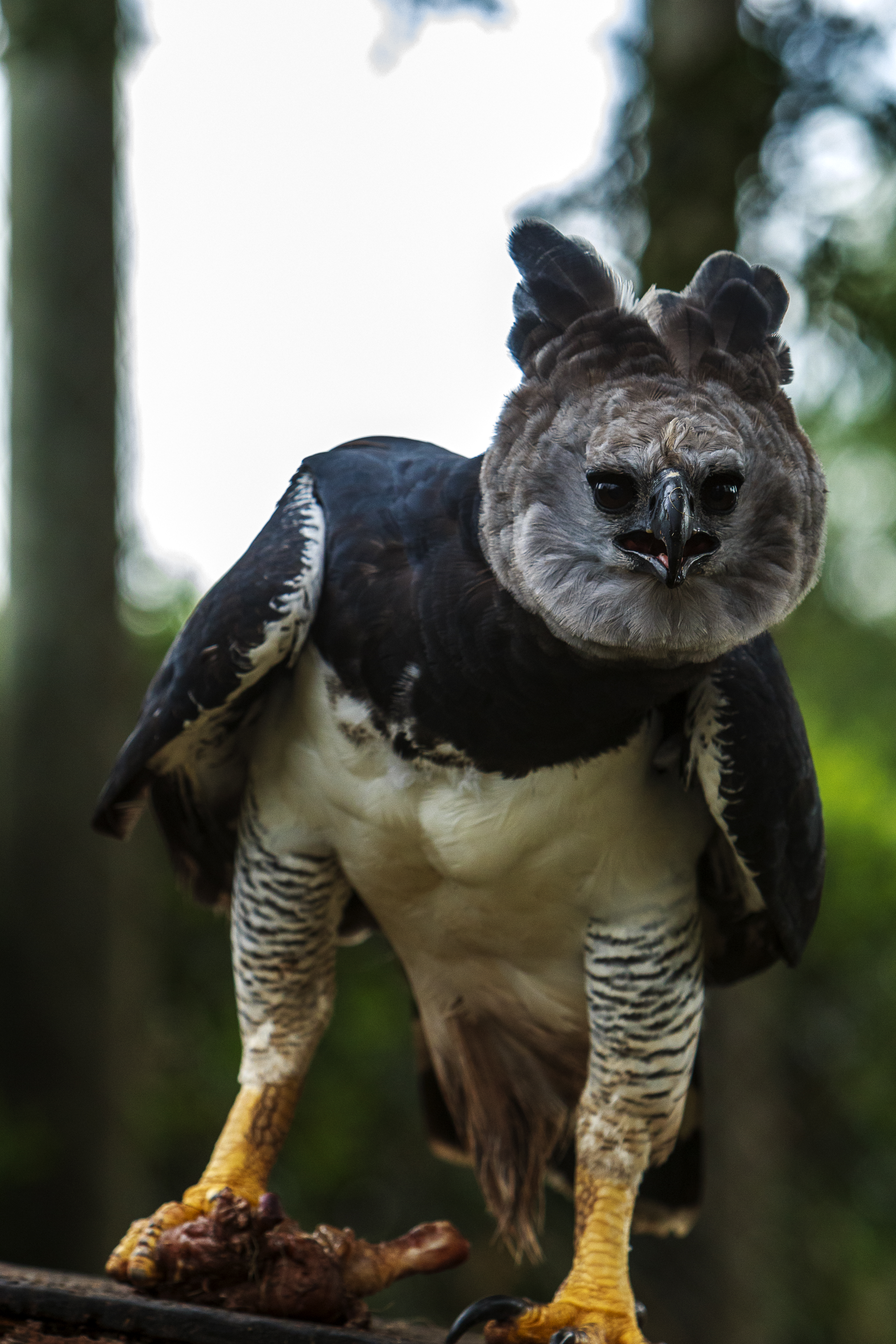 The Harpy Eagle (Harpia harpyja), is a Neotropical species of eagle.